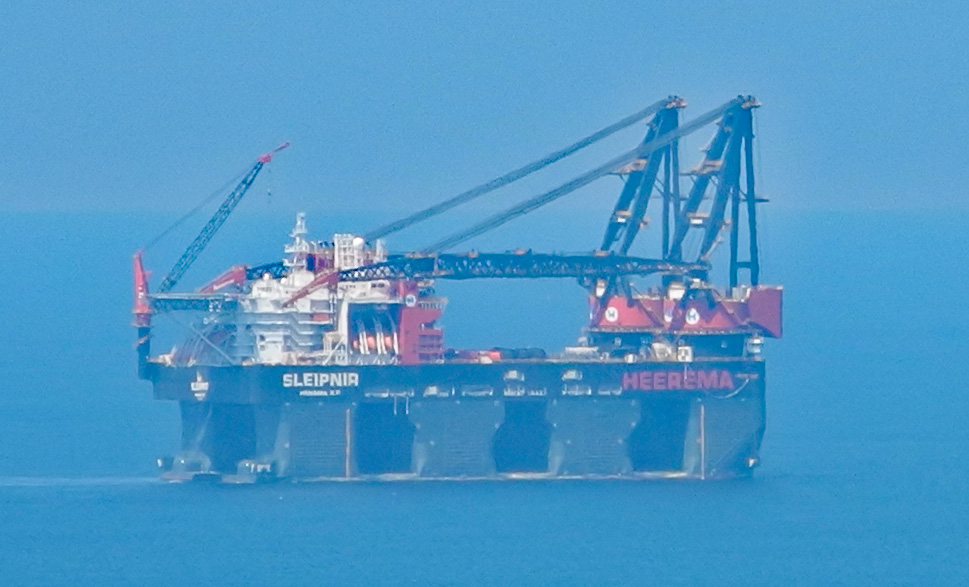 SSCV Sleipnir near Haifa, Sept 18, 2019. Levels & curves adjusted to compensate for atmospheric haze.